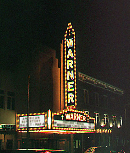 This image was created by me, Jeremy P ollutro. Was photographed, image adjustment and uploaded to site by me. Is to be used on this web page.